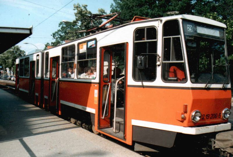 Berlin Tram, manufactured by Tatra, Prague